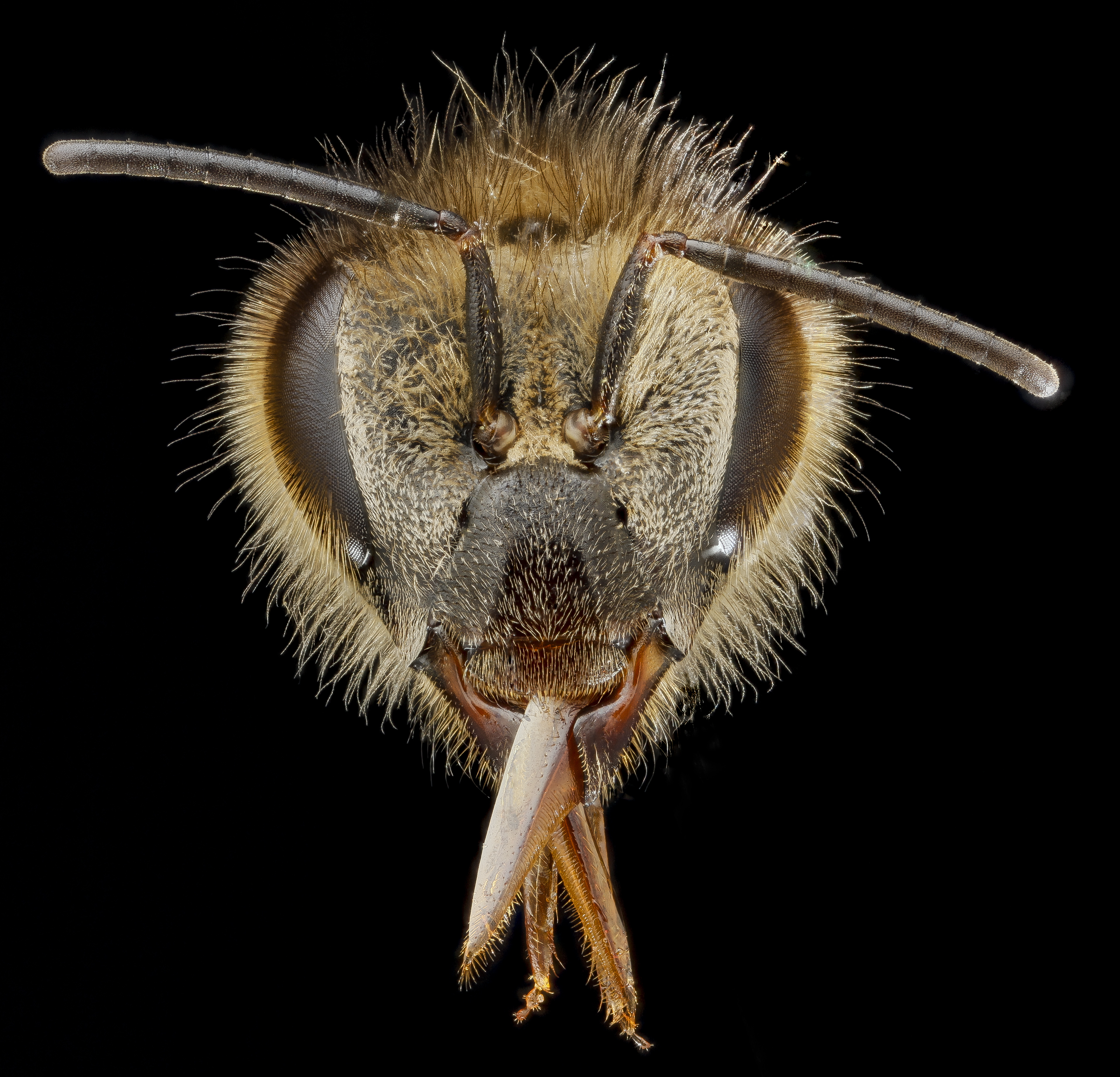 Honey bee face, Apis mellifera, note the hairs coming off the compound eyes...a distinctive honey bee trait compared to native bees (other than Coelioxys) Beltsville Maryland